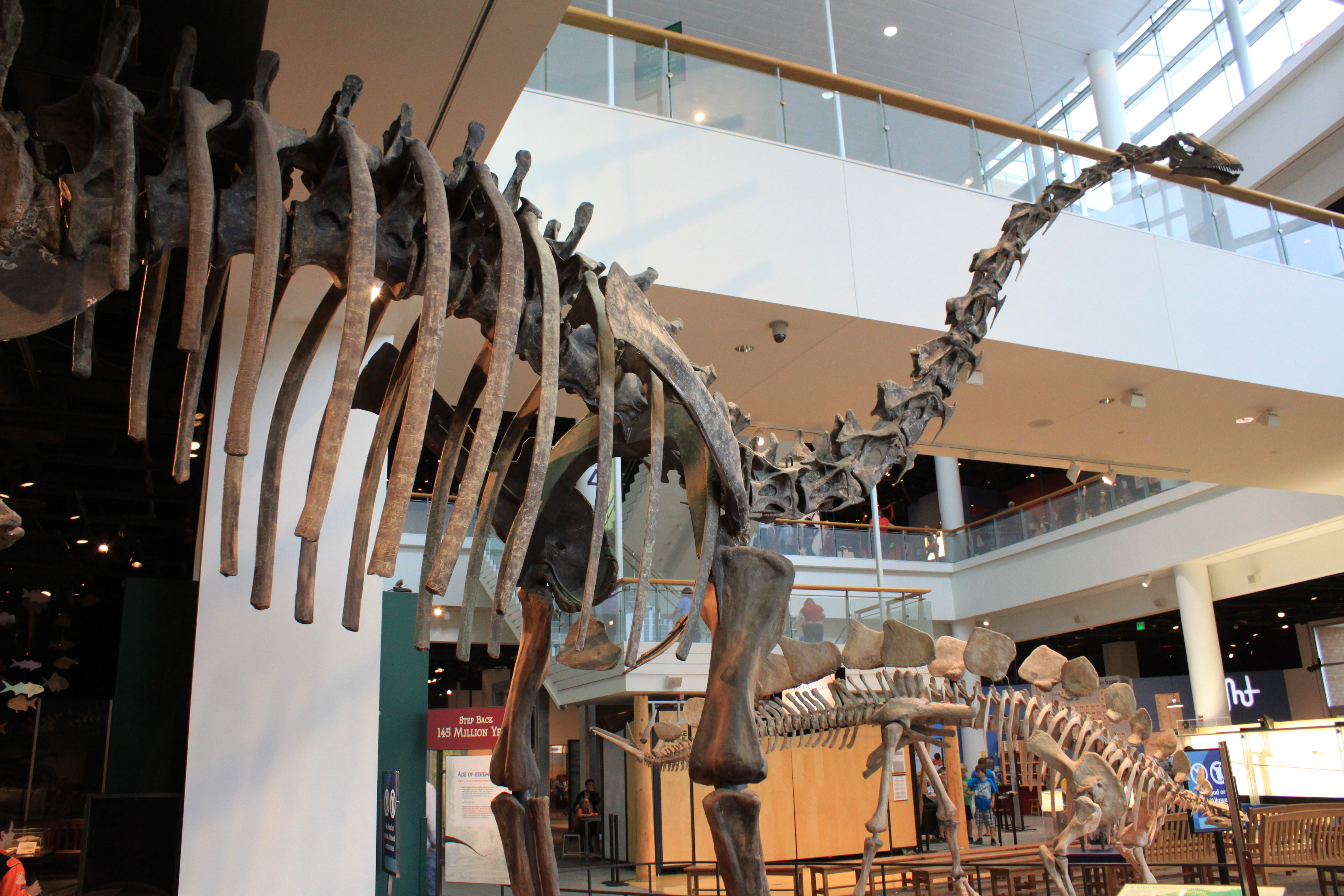 Taken at the Minnosota Science Museum: Dinosaurs and Fossils Gallery. Creative Commons licensed photo by . Please feel free to take and reuse for any purpose.